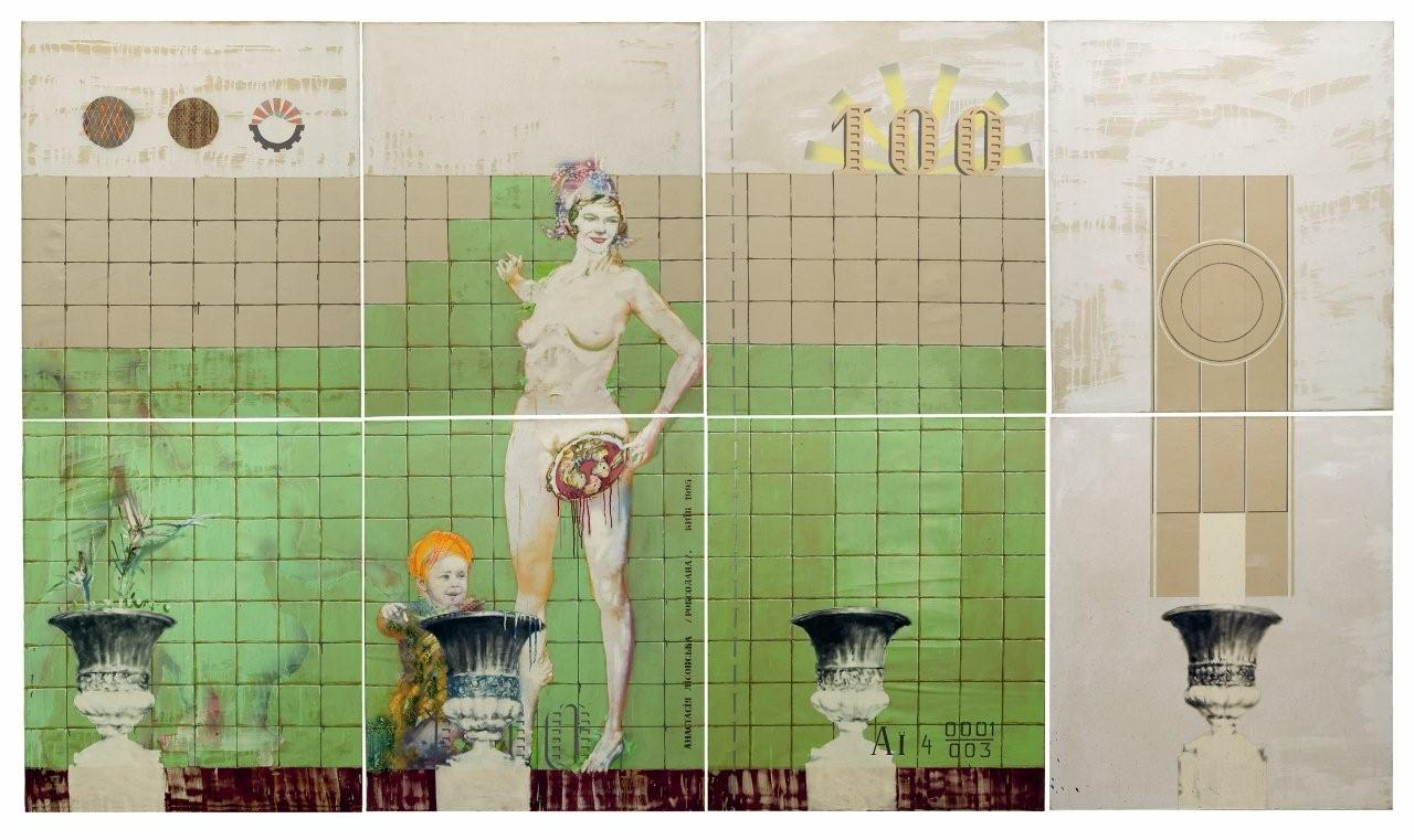 "Roxelana" paiting, oil on canvas, painted in 1995 by Oleg Tistol, a Ukrainian contemporary art painter.